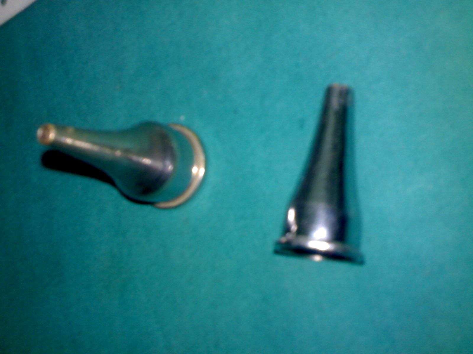 A device used to look into the ear canal by straightening it